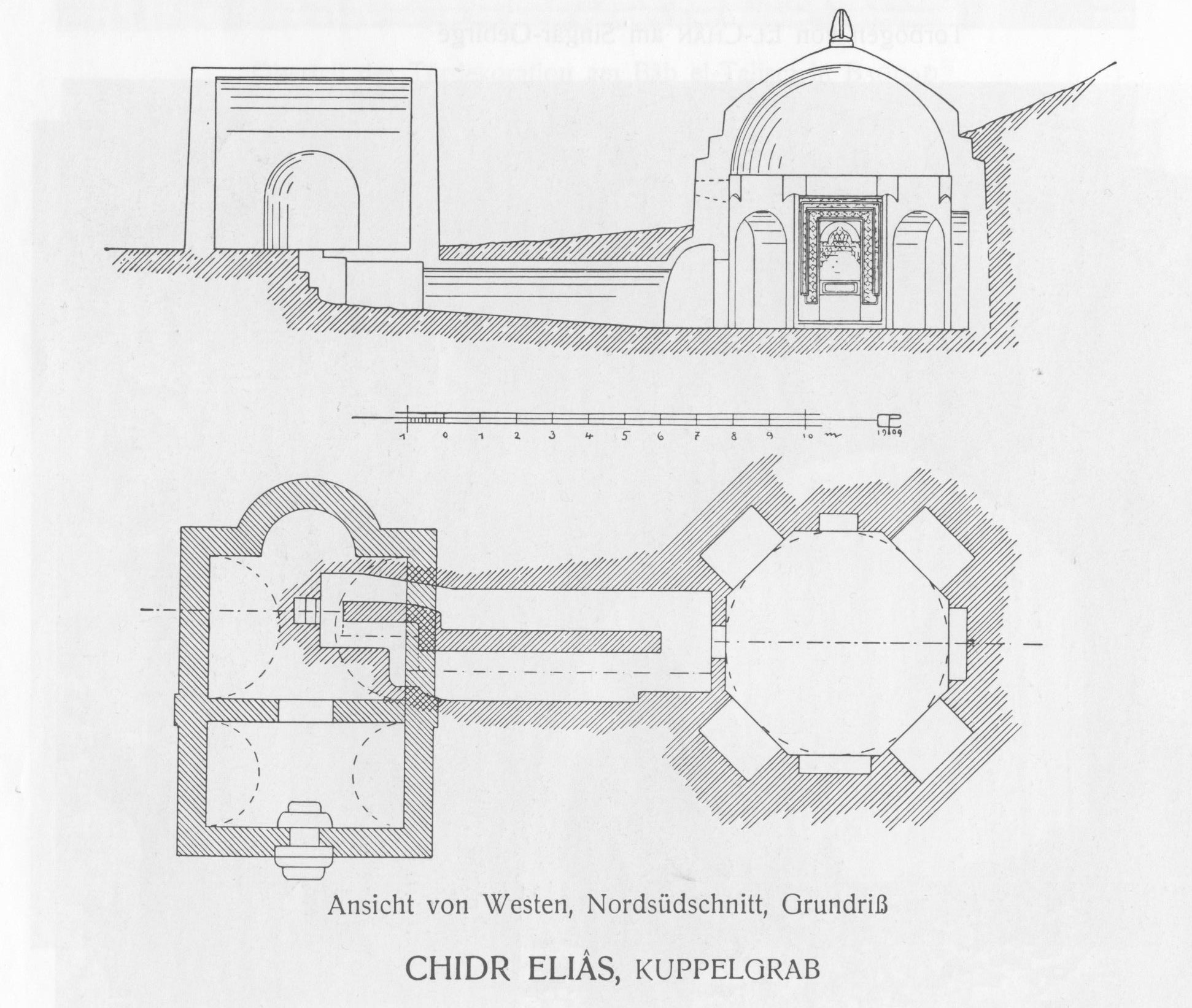 The Sanctuary of Khidr-Elias (Mar Behnam) at Mar Behnam Monastery, Iraq